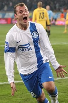 Roman Zozulya